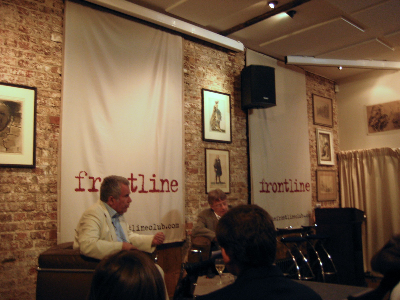 A meeting at the Frontline Club